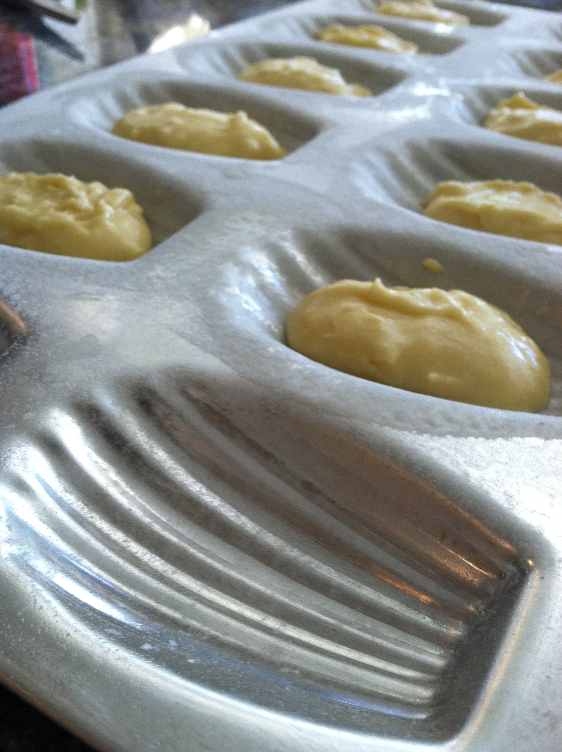 pre-baking in a tray